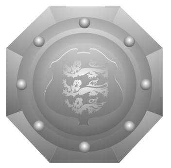 The FA Community Shield Trophy